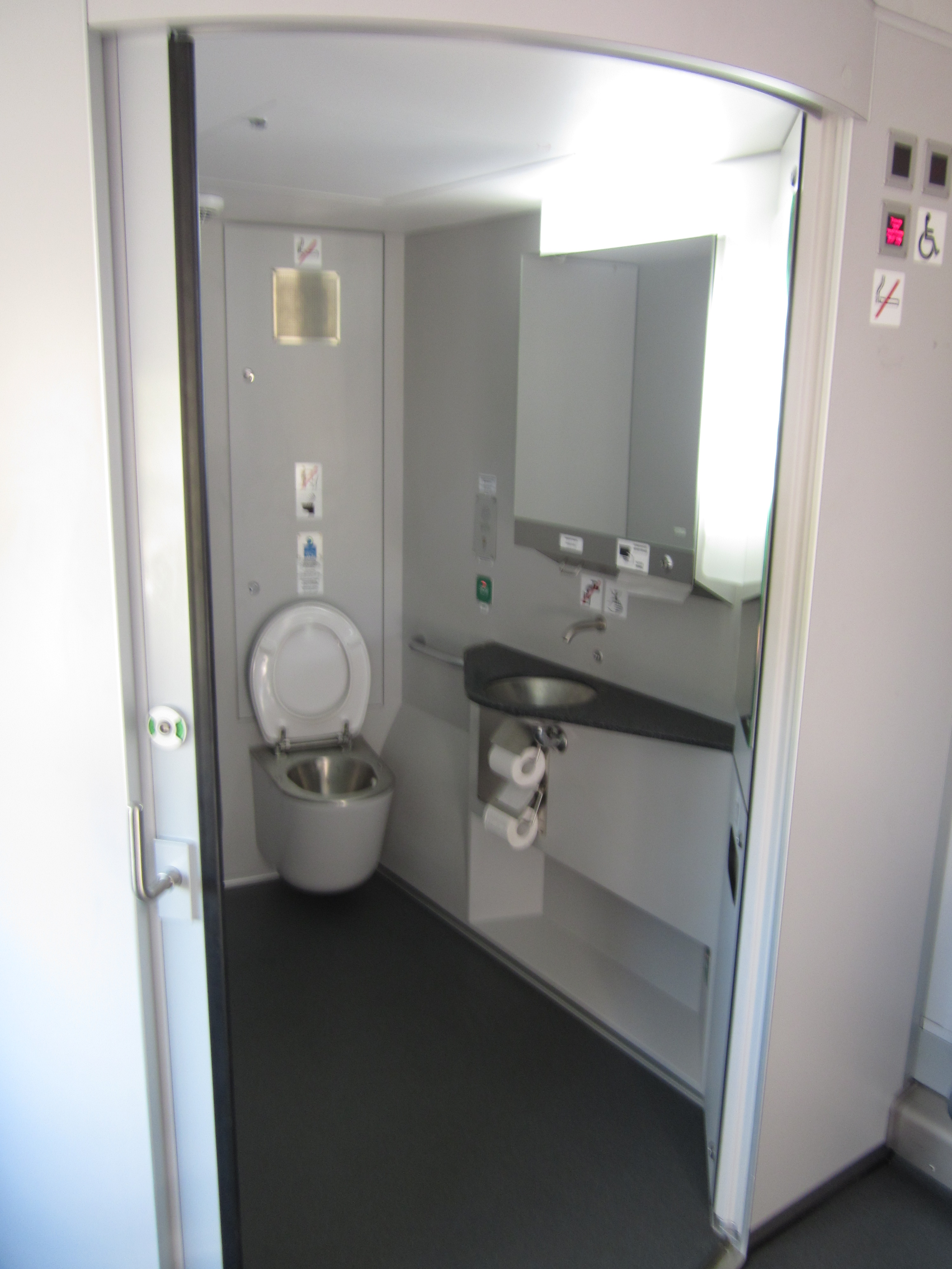 A toilet inside the electric multiple unit ES1-005.